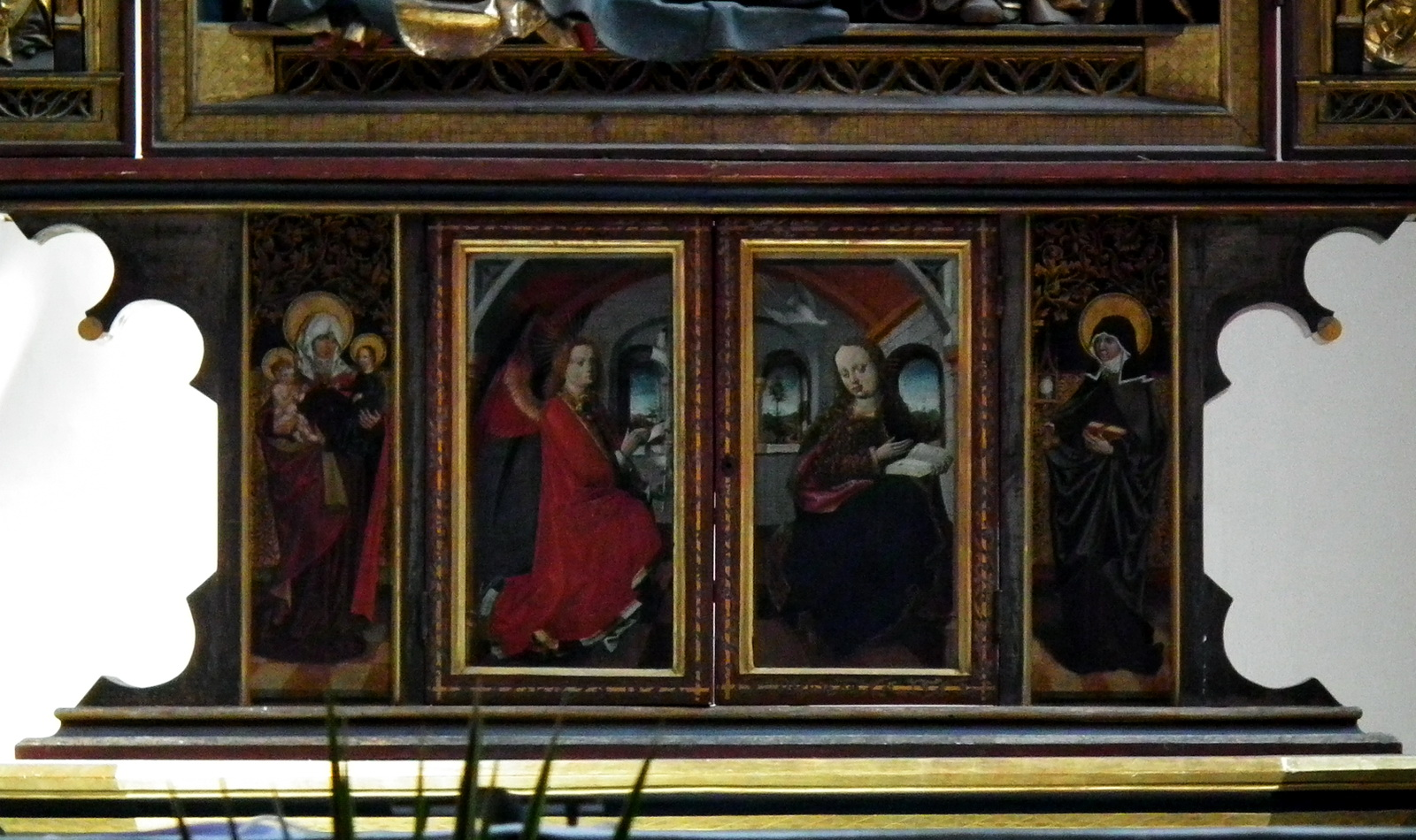 Altar of the Adoration by the shepherds - Predella Church of the Franciscan Order Native nameFranziskanerkirche/Chiesa dei FrancescaniLocationBolzano, ItalyCoordinates46° 30′ 02.61″ N, 11° 21′ 15.03″ E